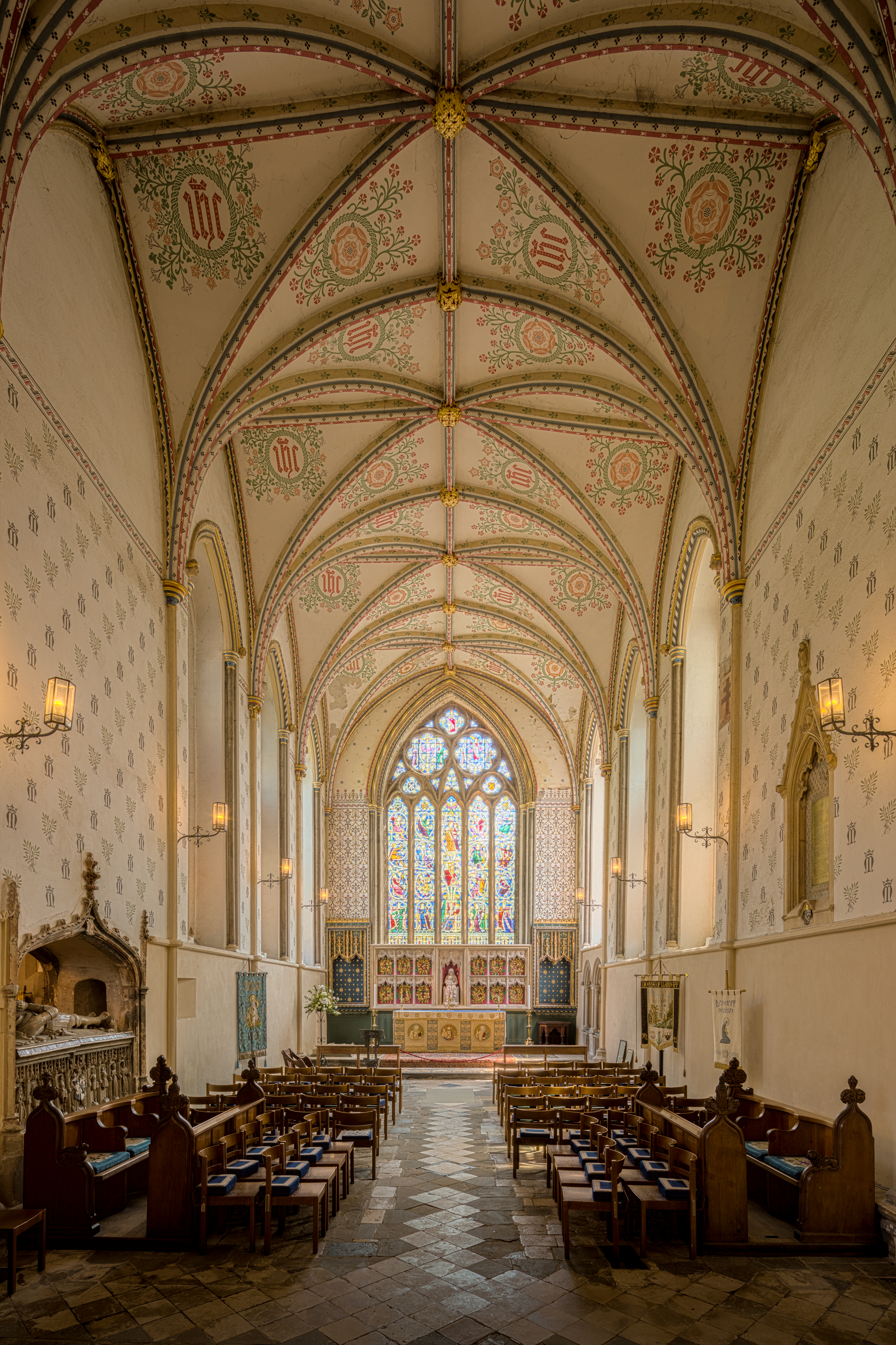 Here is an hdr photograph taken of the lady chapel inside Llandaff Cathedral. Located in Cardiff, Wales, UK.